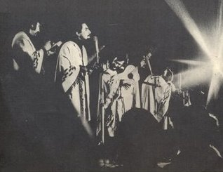 Quinteto Tiempo, Argentina. Folk group. Members: Alejandro Jáuregui, Eduardo Molina, Santiago Suárez, Rodolfo Larumbe, Ariel Gravano.